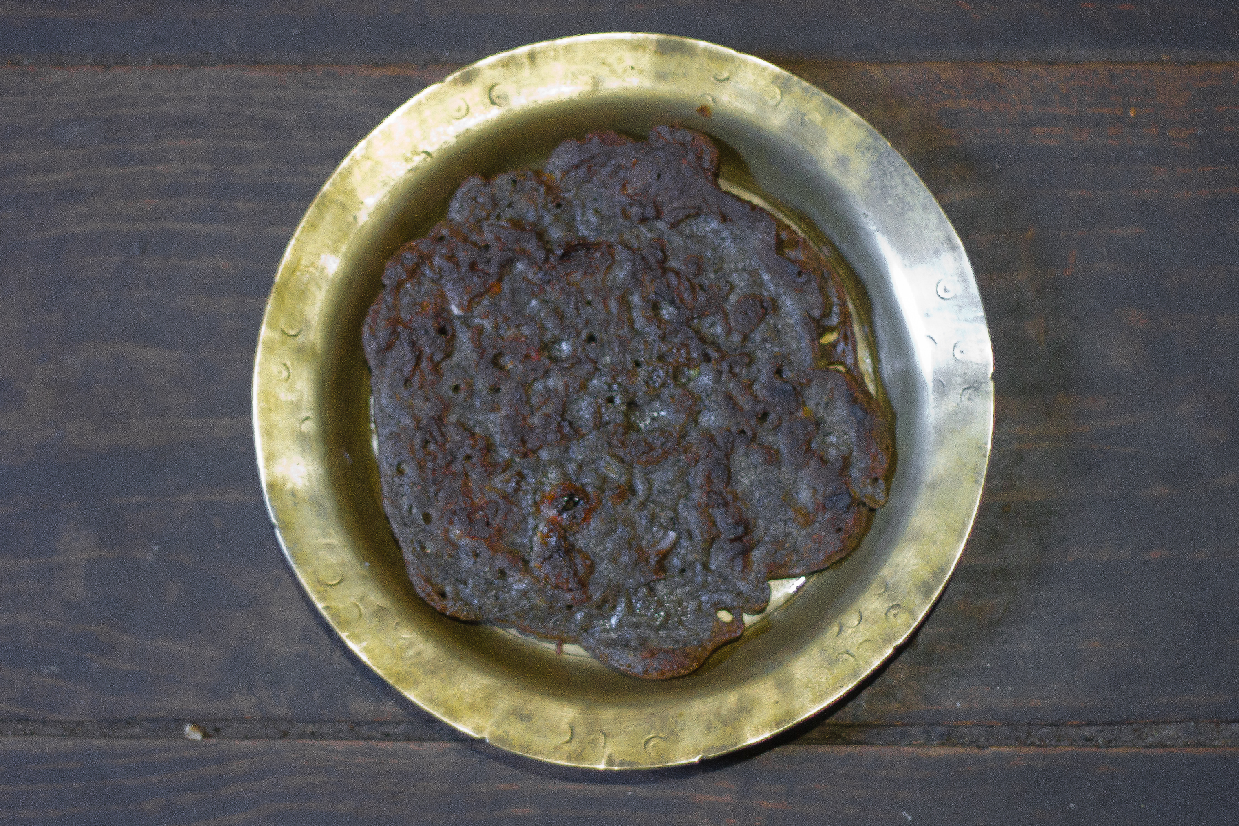 This nepali cuisine 'Phapar Ko Roti' - 'Buckwheat bread' was clicked at Pendam, Sikkim, India.